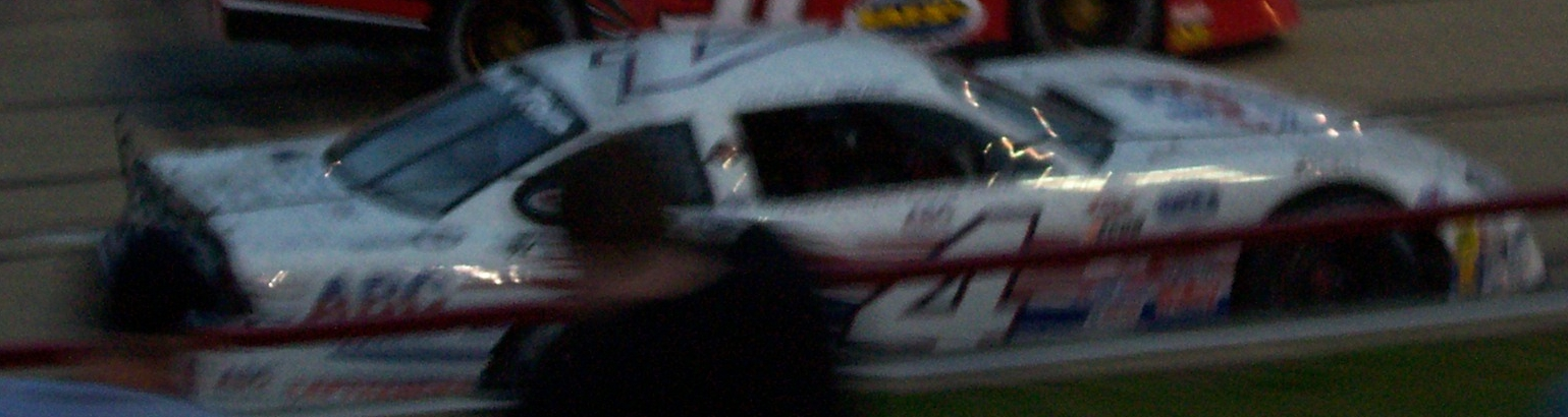 New Zealand racecar driver Michael Pickens racing in his Madison late model at Madison International Speedway on May 18, 2007 Highly cropped from original.